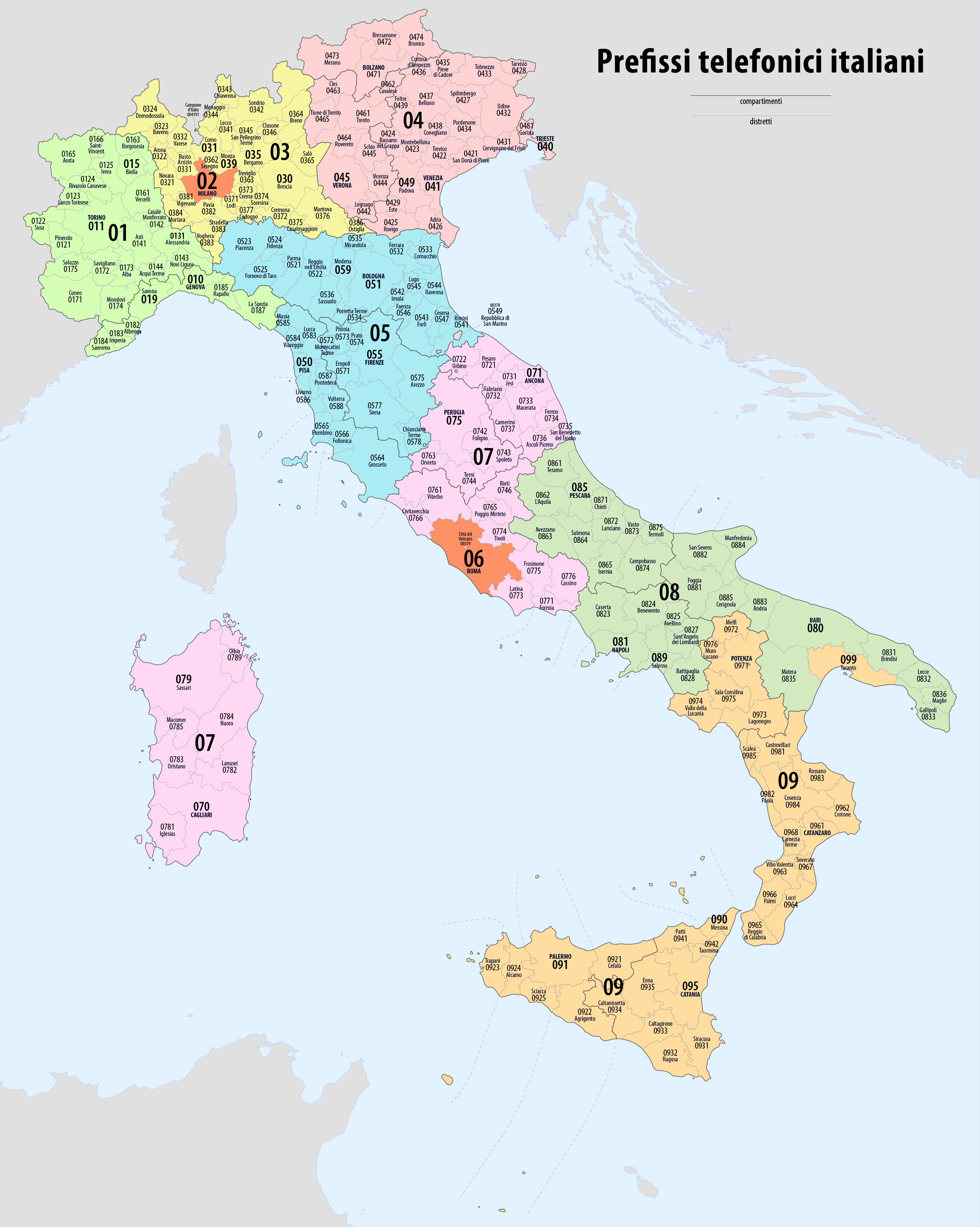 Map of the dialing codes of the telephone network of Italy